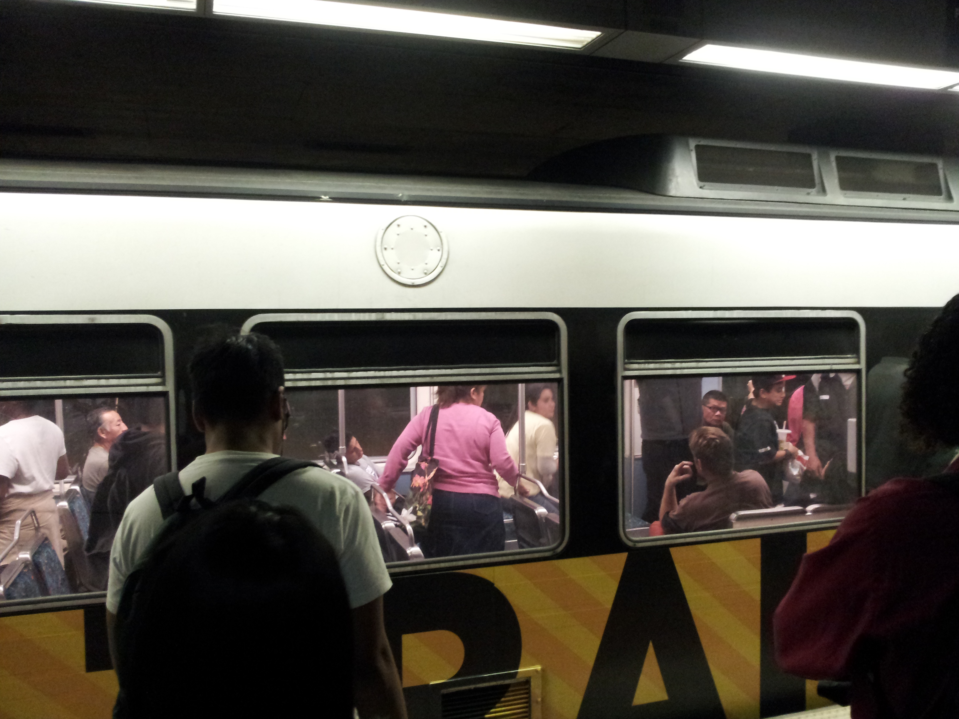 Blue Line or Expo Line train arriving at LACMTA 7th Street Metro Center. (Same platform used by both lines, so we can't tell for sure which of the two routes it was.)